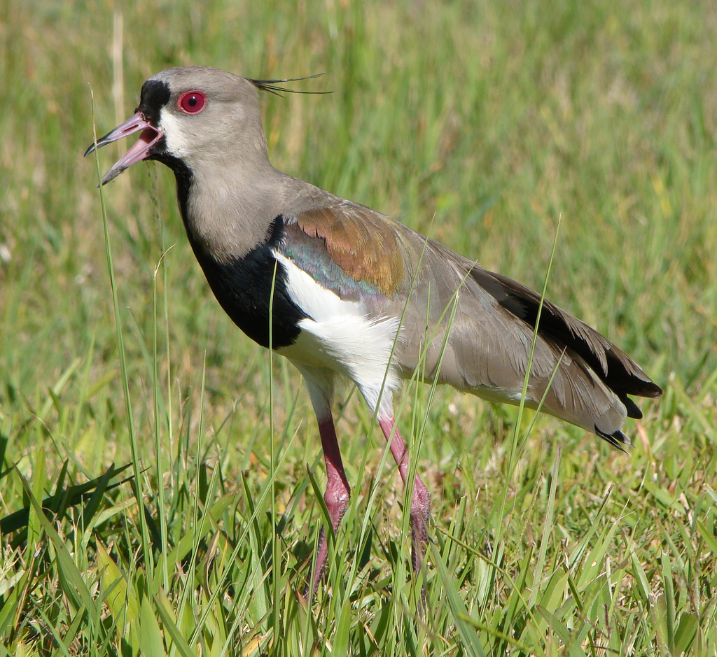 Southern Lapwing (known in Brazil as the Quero-quero) in Capão do Leão, Rio Grande do Sul, Brazil.